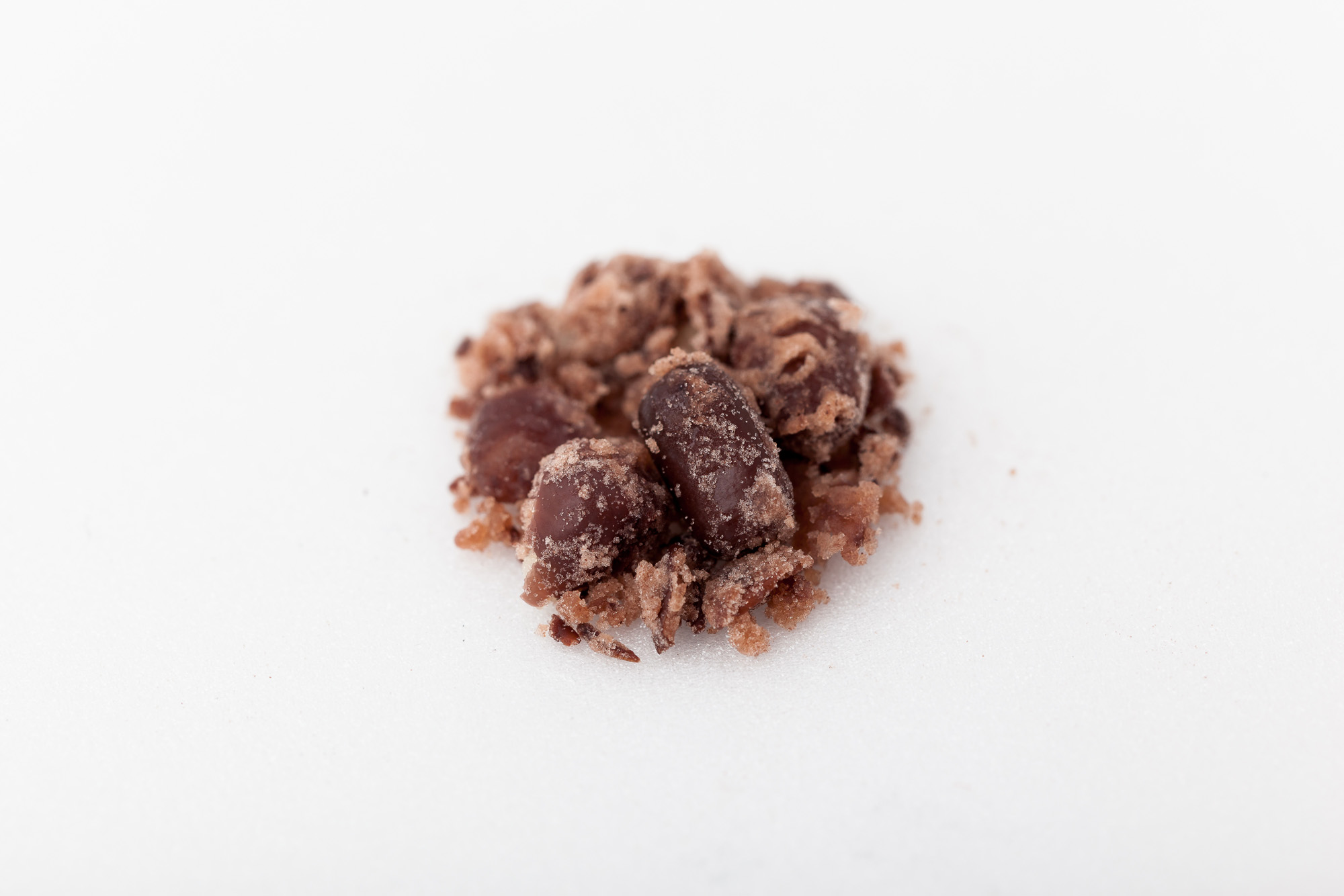 patgomul